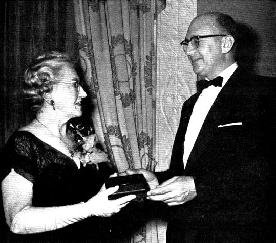 Photograph of Florence E. Wall (left) in the article "The Ninth Medal Award, December 13, 1956" in Journal of Cosmetic Science, Vol. 8, No. 3, published January 1958, p. 158. Wall was the first woman to receive the medal of the Society of Cosmetic Chemists. The caption of the original photograph reads: "President Kolar (R) presenting the Medal to Miss Wall." No copyright renewal. No author identified. No photographer identified.